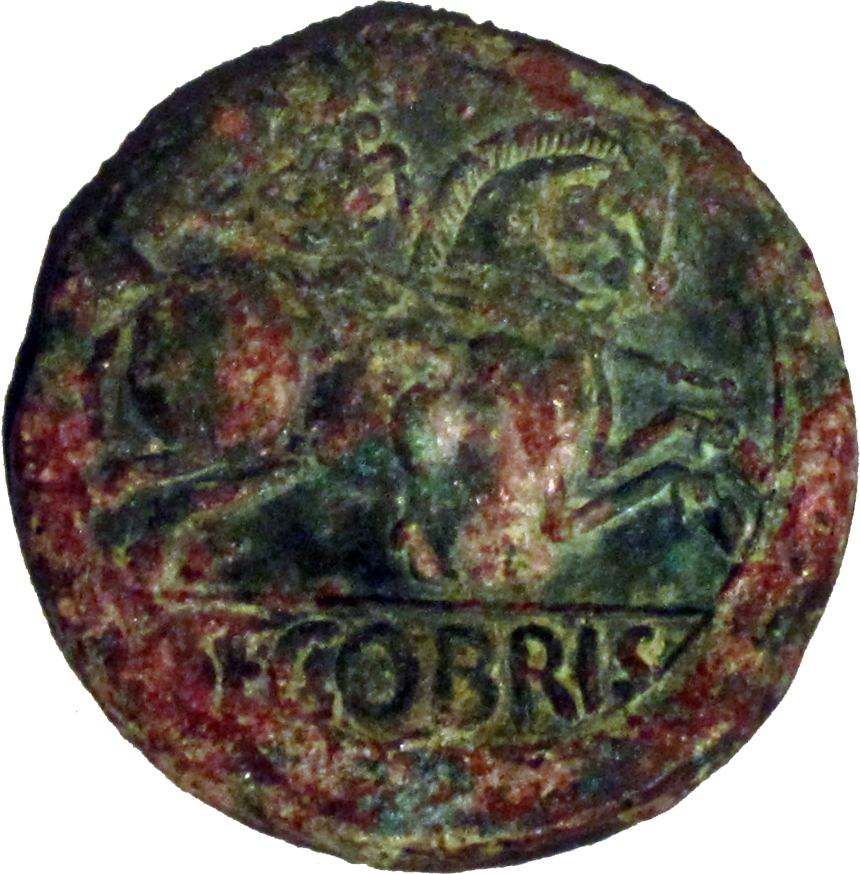 As of Segóbriga prior to August, approximately 50 b.c. It is currently deposited at the center of interpretation of the Archaeological Park of Segógriga (Cuenca, Castile - La Mancha). As de Segóbriga anterior a Augusto, aproximadamente del año 50 a.C. Actualmente se encuentra depositado en el Centro de interpretación del parque arqueológico de Segógriga (Cuenca, Castilla-La Mancha).